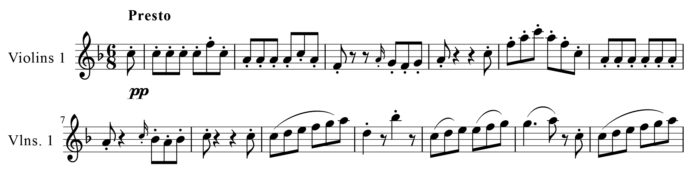 Joseph Haydn, Symphony No. 67, first movement, bar 1-13